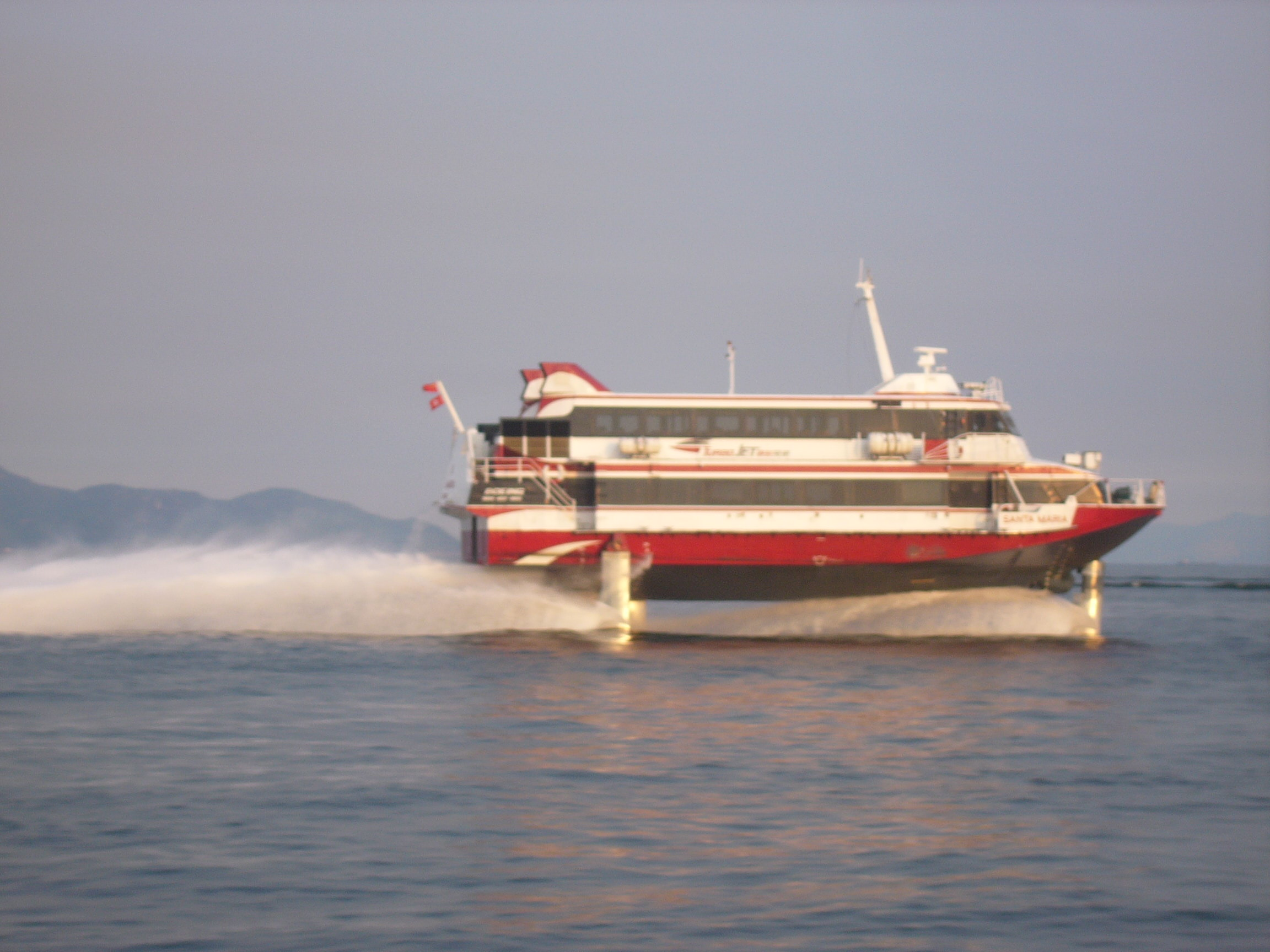 Santa Maria Jetfoil of TurboJET IMO Number: 7523910 MMSI Number: 477032000 Callsign: VRVI7 Length: 29 m Beam: 9 m